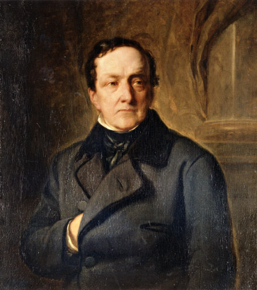 Portrait of Joachim Heinrich Wilhelm Wagener